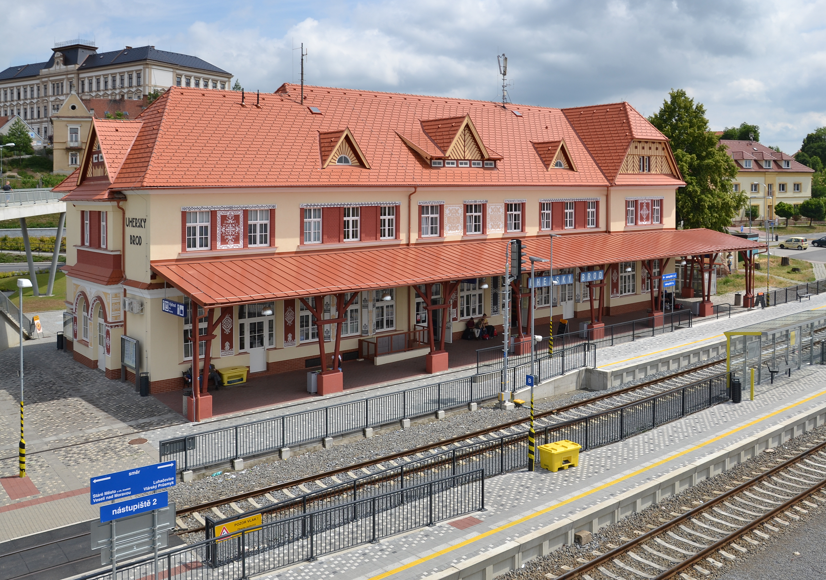 Uherský Brod (Ungarisch Brod), Czech Republic - train station